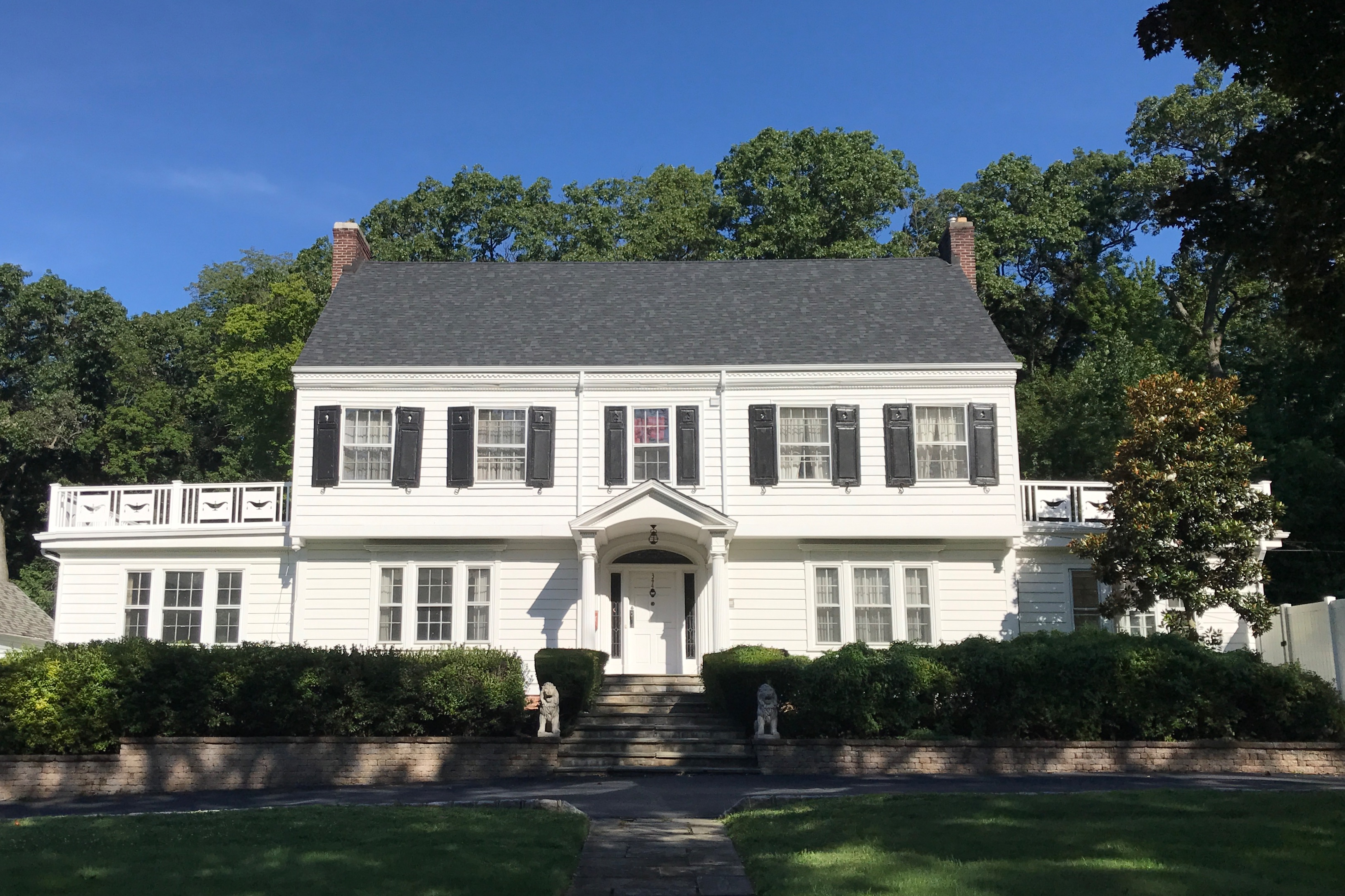 The Applegate House located at 344 Middlesex Avenue in Metuchen, New Jersey. Built circa 1925 date QS:P,+1925-00-00T00:00:00Z/9,P1480,Q5727902. Colonial Revival style. Contributing property.